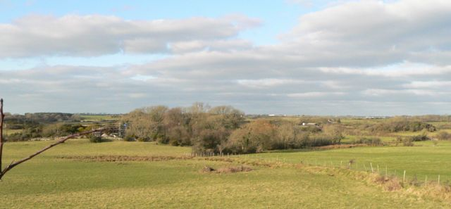 Cerrig Y Gwyddel, Cerrig Ceinwen. A view across the fields towards the ancient farmstead of 'Cerrig Y Gwyddel'. In ancient history the Welsh and Irish once went into Battle near this spot.